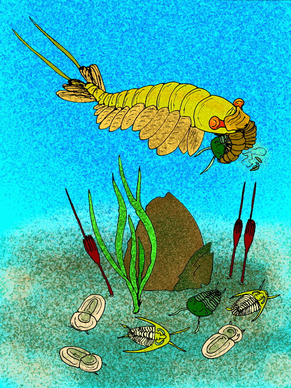 User:Apokryltaros reconstruction of Anomalocaris saron feeding on a trilobite, Yunnanocephalus yunnanensis.